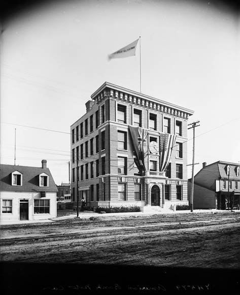 The American Bank Note Co. building, located at 220-228 Wellington Street, decorated with an American flag and Canadian Red Ensign in celebration of Queen Victoria's Diamond Jubilee. Ottawa, Canada.